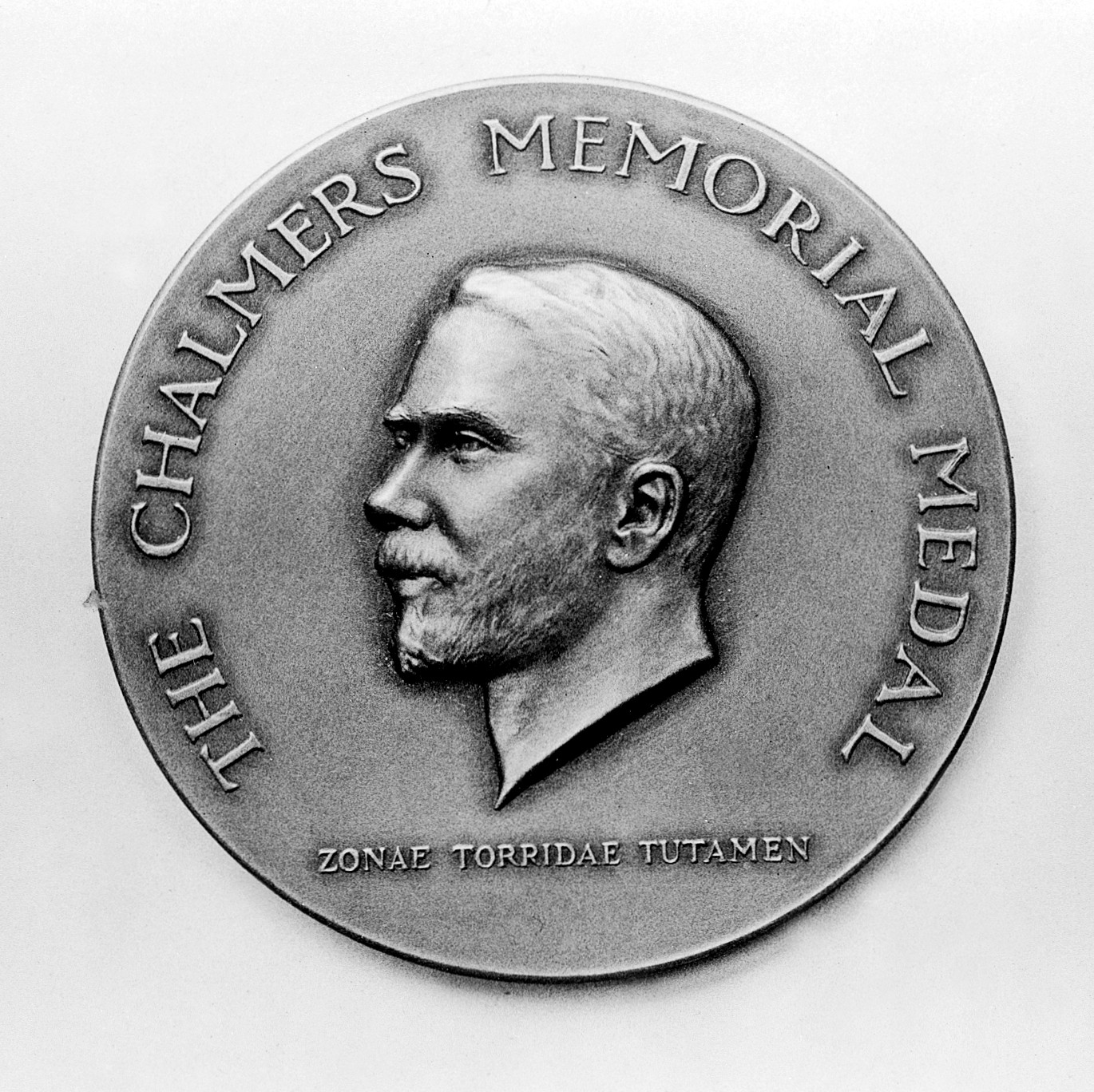 Medals: The Chalmers Memorial Medal. Archives & Manuscripts Keywords: chalmers medal; tropical medicine and hygiene